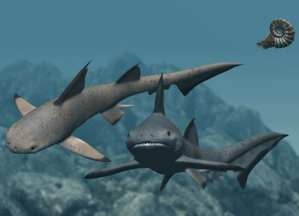 Hybodus fraasi